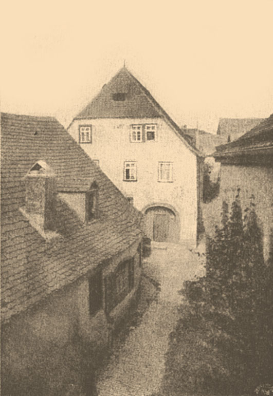 Illustration from Brockhaus and Efron Jewish Encyclopedia (1906—1913): The building of the former synagogue in Kitzingen, erected in the 16th century, profaned in 1715 and destroyed on 23d February 1945 in a bombardment of the city.